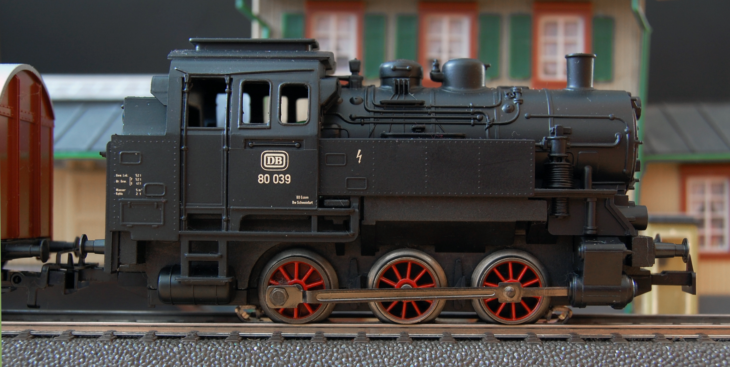 This image shows an model train of the "DRG Baureihe 80" with a scale of H0 made by Märklin.